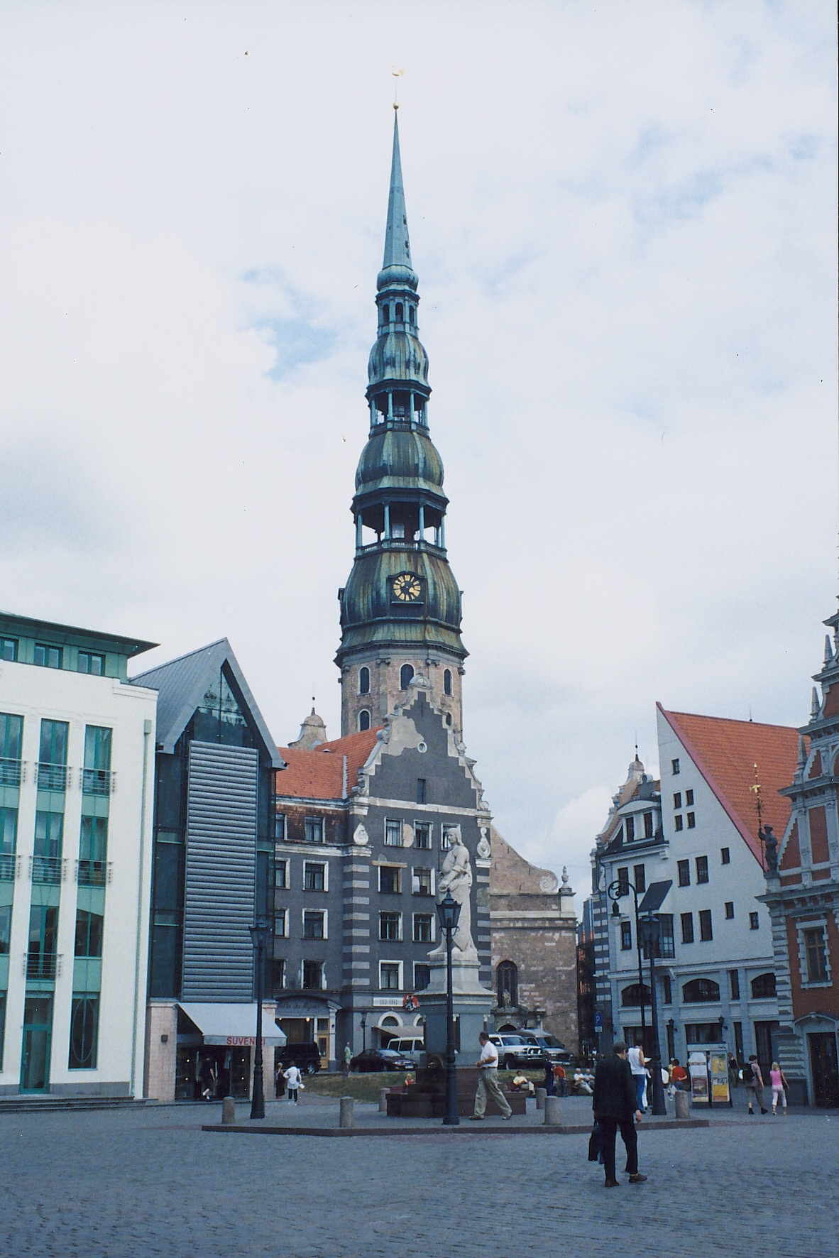 St. Peter's Evangelical Lutheran Church, Riga Latvia